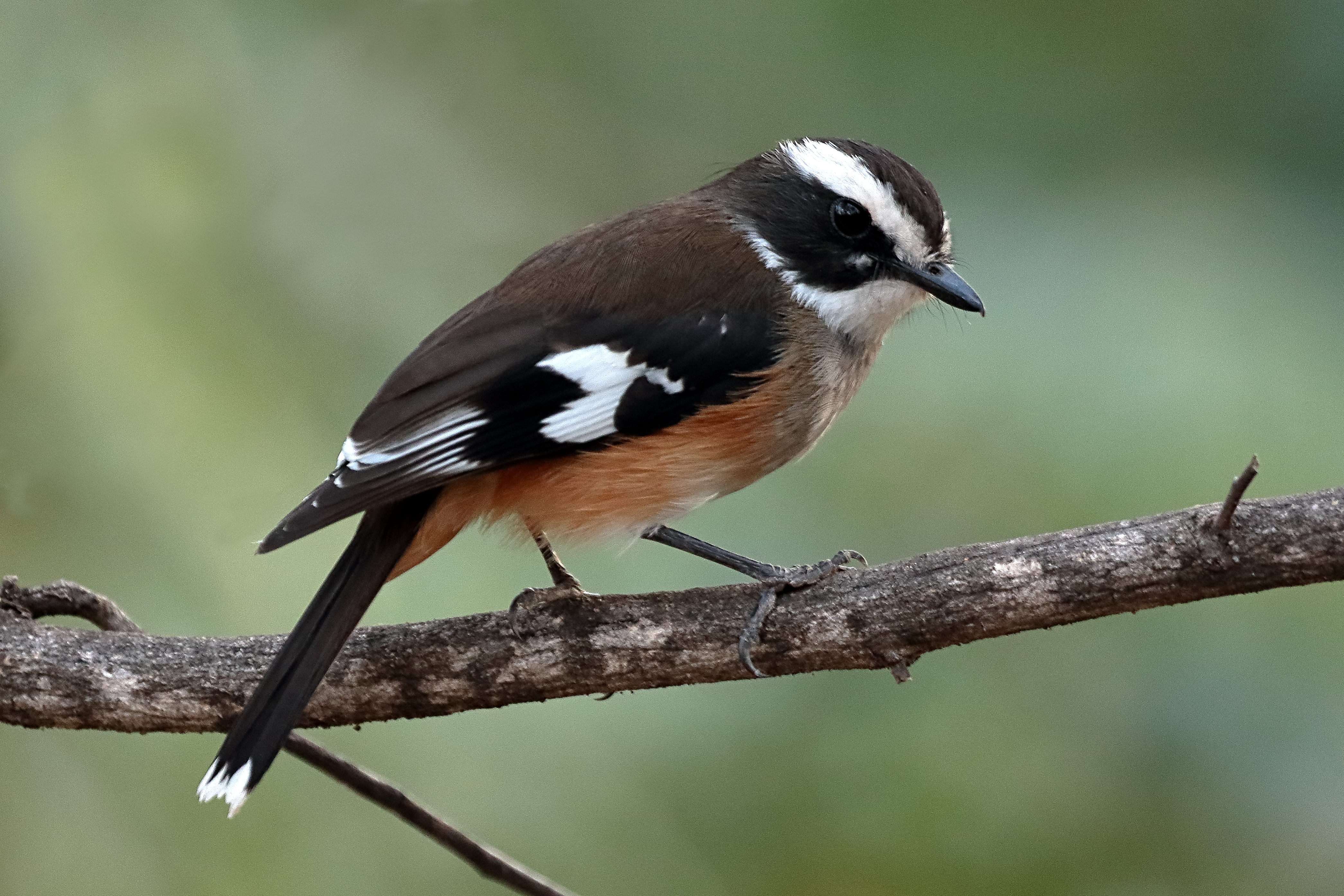 Buff-sided robin at Lawn Hill national park, Queensland